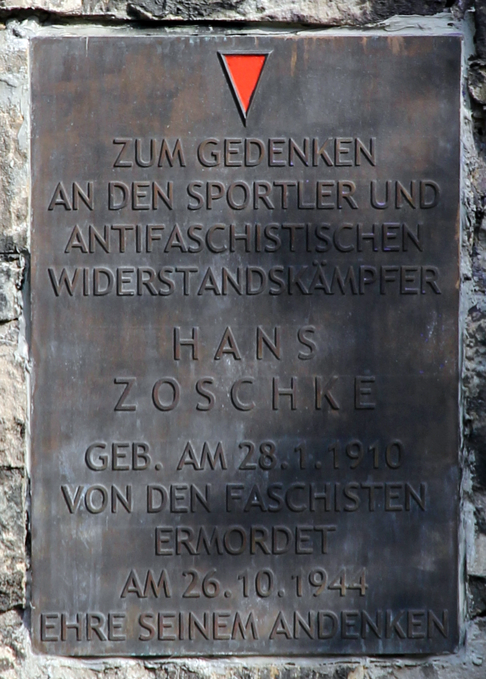 Memorial plaque, Hans Zoschke, Normannenstraße 28, Berlin-Lichtenberg, Germany